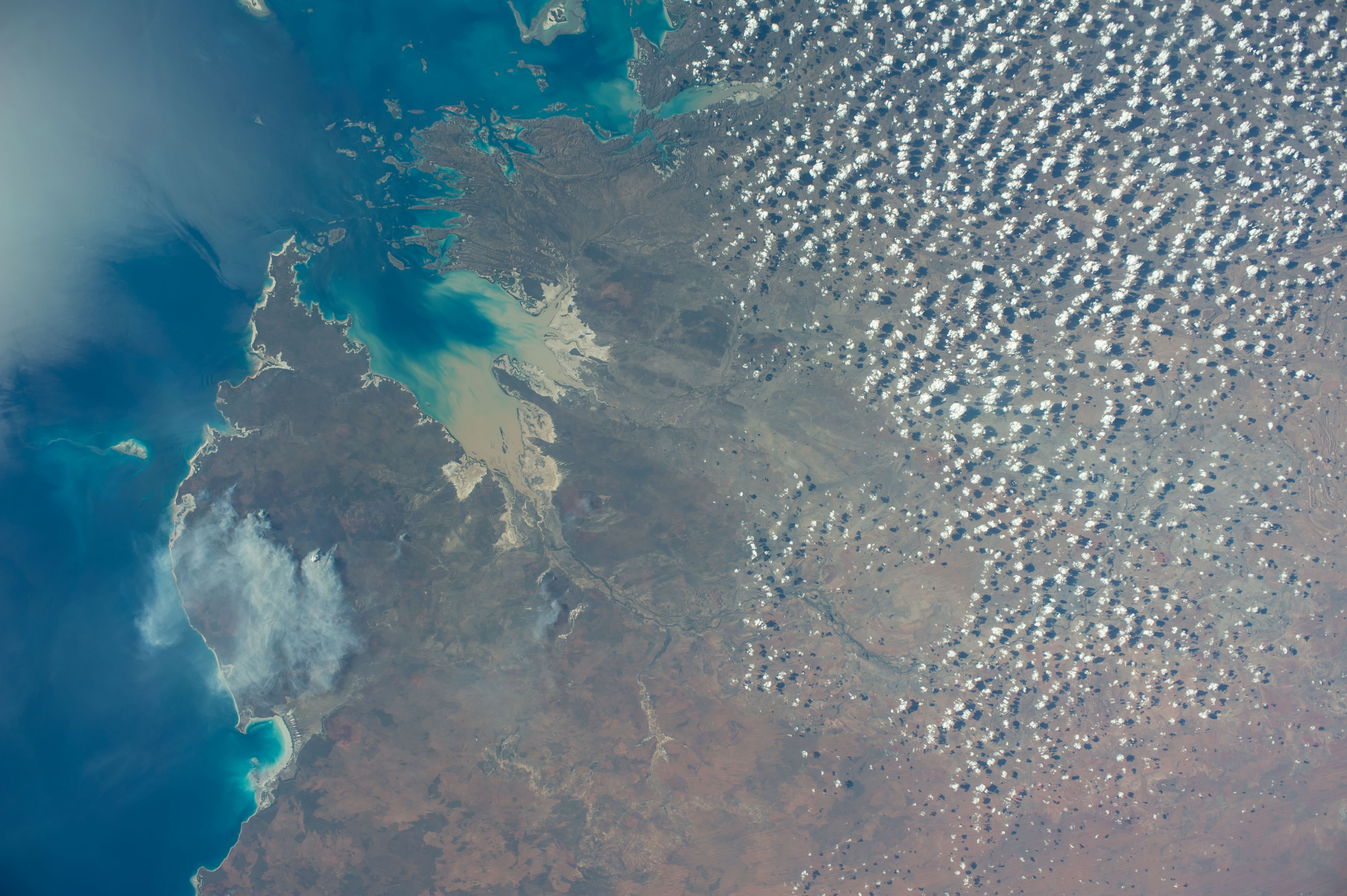 King Sound on the northwest coast of Australia is featured in this image photographed by an Expedition 40 crew member on the International Space Station. The Fitzroy River, one of Australia's largest, empties into the Sound, a large gulf in Western Australia (approximately 120 kilometers long). King Sound has the highest tides in Australia, in the range of 11-12 meters, the second highest in the world after the Bay of Fundy on the east coast of North America. The strong brown smudge at the head of the Sound contrasts with the clearer blue water along the rest of the coast. This is mud stirred up by the tides and also supplied by the Fitzroy River. The bright reflection point of the sun obscures the blue water of the Indian Ocean (top left). Just to the west of the Sound, thick plumes of wildfire smoke, driven by northeast winds, obscure the coastline. A wide field of "popcorn cumulus" clouds (right) is a common effect of daily heating of the ground surface.